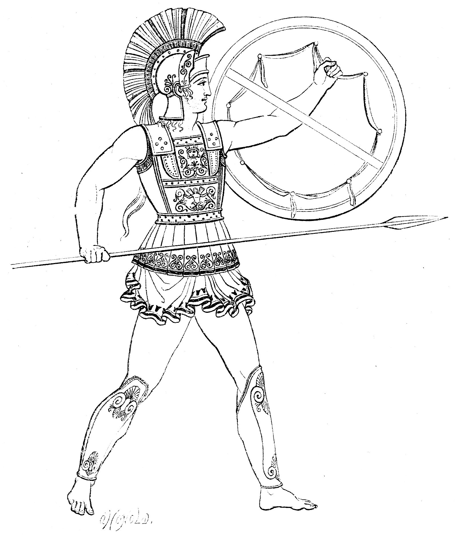 Illustration from "Illustrerad verldshistoria utgifven av E. Wallis. volume I": Greece warrior.